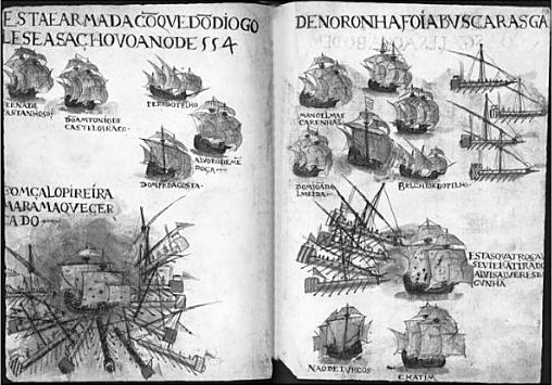 Description of the battle of Murad Reis (Ottoman forces) with Diogo de Noronha (Portuguese forces) in the Hormuz strait. The Ottoman galleys successfully attack two portuguese galeons. Original key say : This is the fleet with which Dom Diogo de Noronha went to look for the Ottoman galleys and found them.